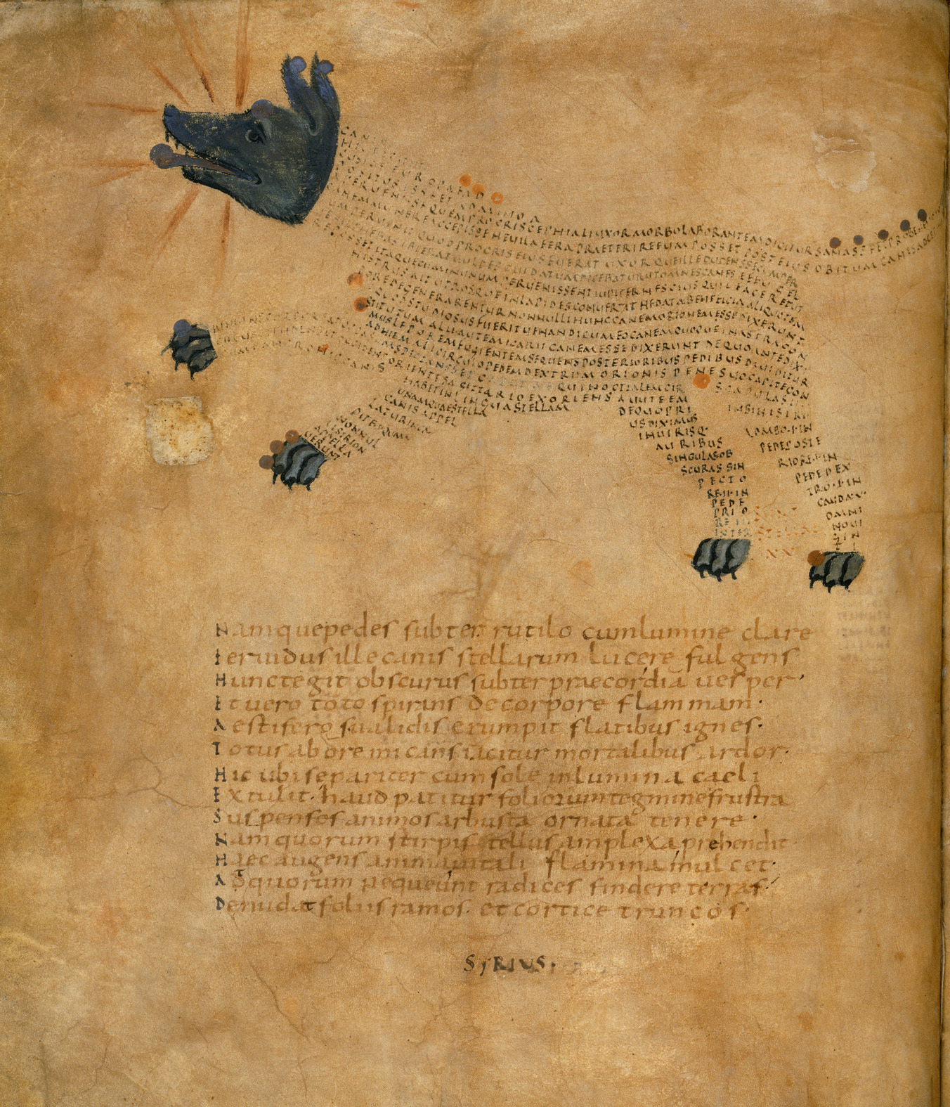 Illustration of the constellation Sirius, with text